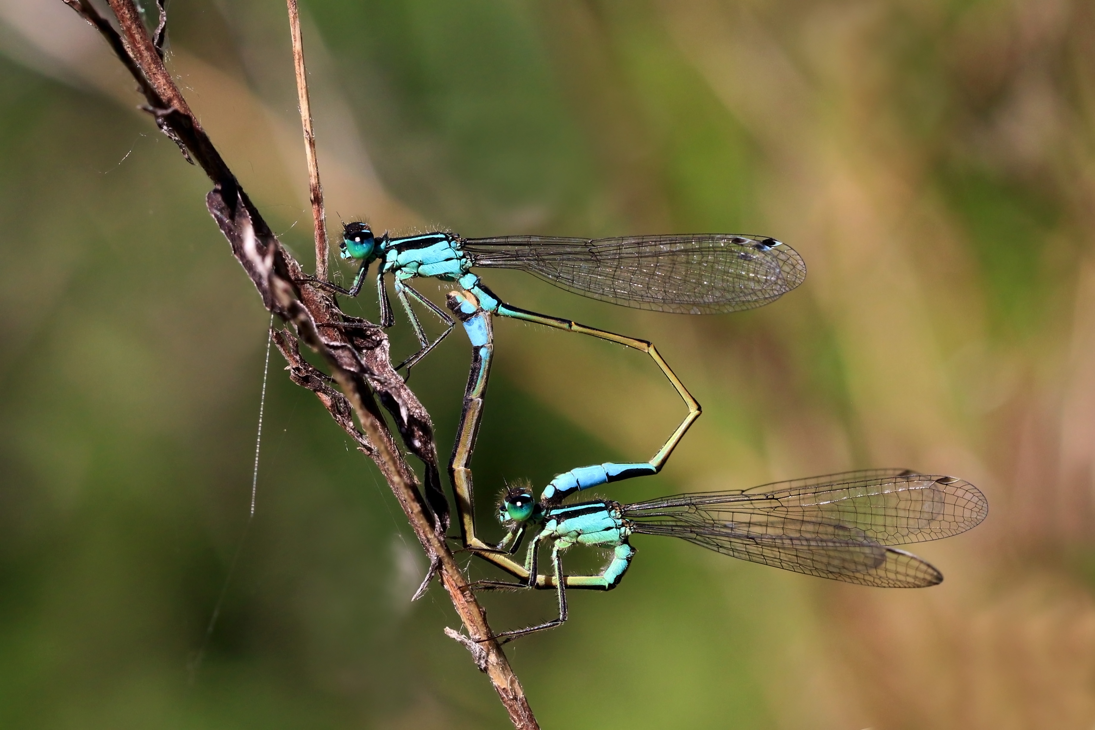 Blue-tailed damselfies (Ischnura elegans) mating - female form typica, Radley Lakes, Oxfordshire